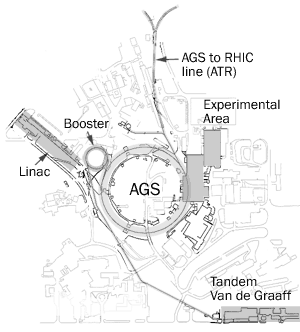 A schematic representation of the AGS complex.